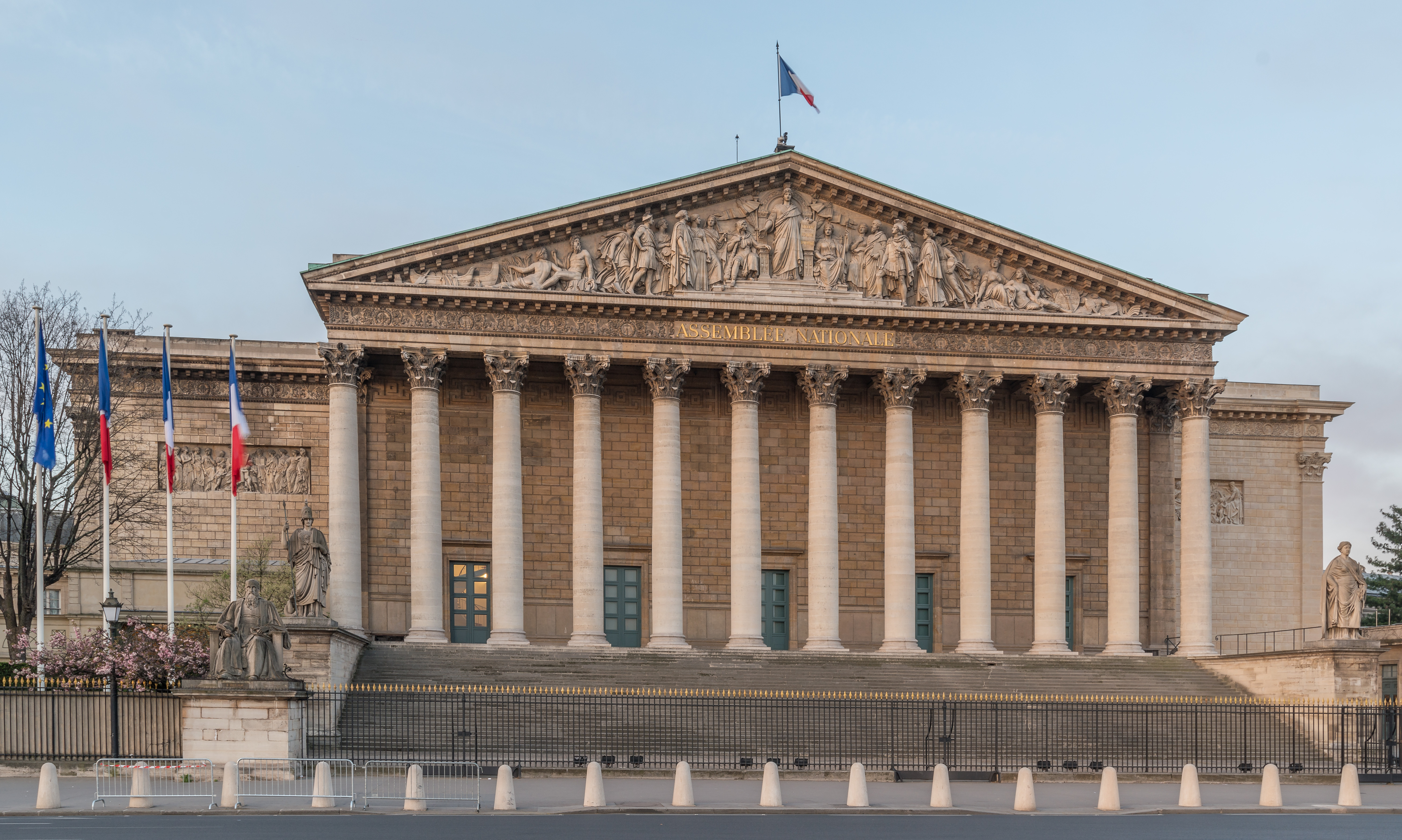 The Palais Bourbon, currently used as the seat of the Assemblée Nationale, the French lower house